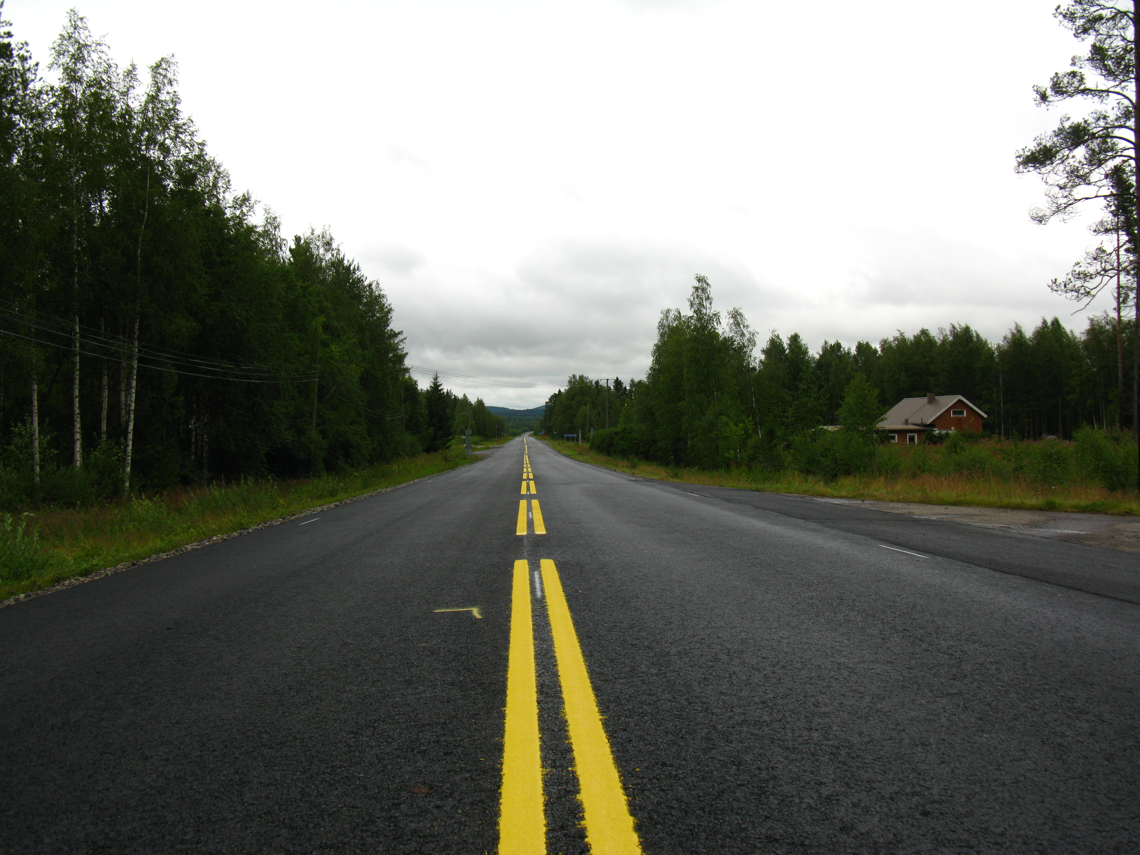 Local road 899 in Rekivaara, Sotkamo, Finland, towards the North.